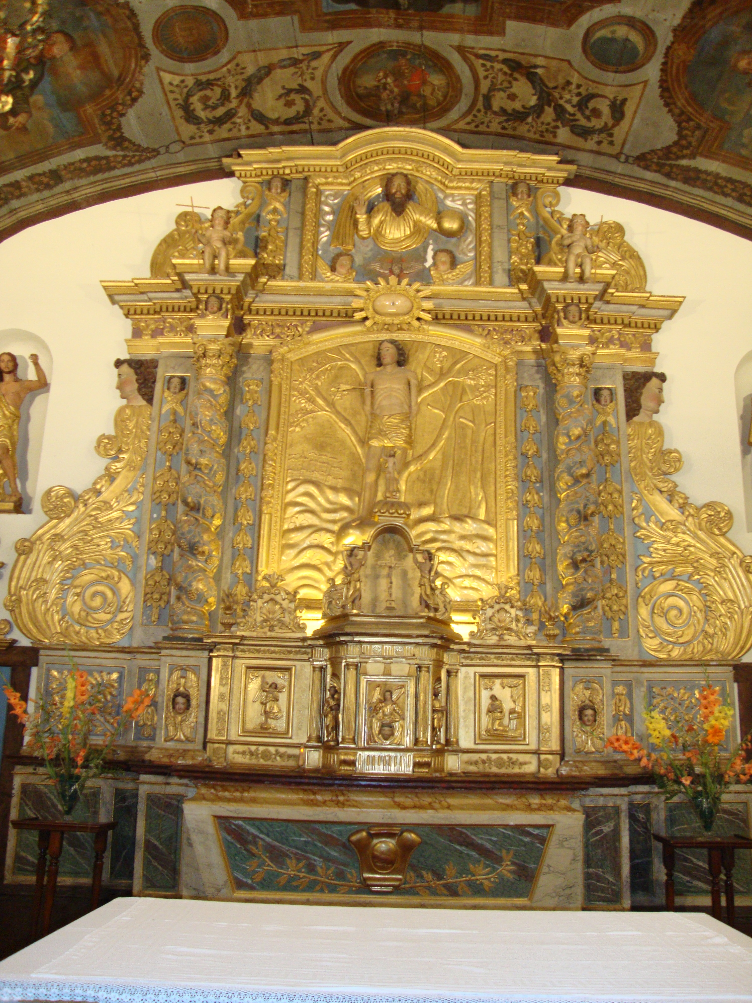 Jatxou_(Pyr-Atl._Fr) Saint-Sébastien church, altar piece with relief of St.Sebastian.JPG